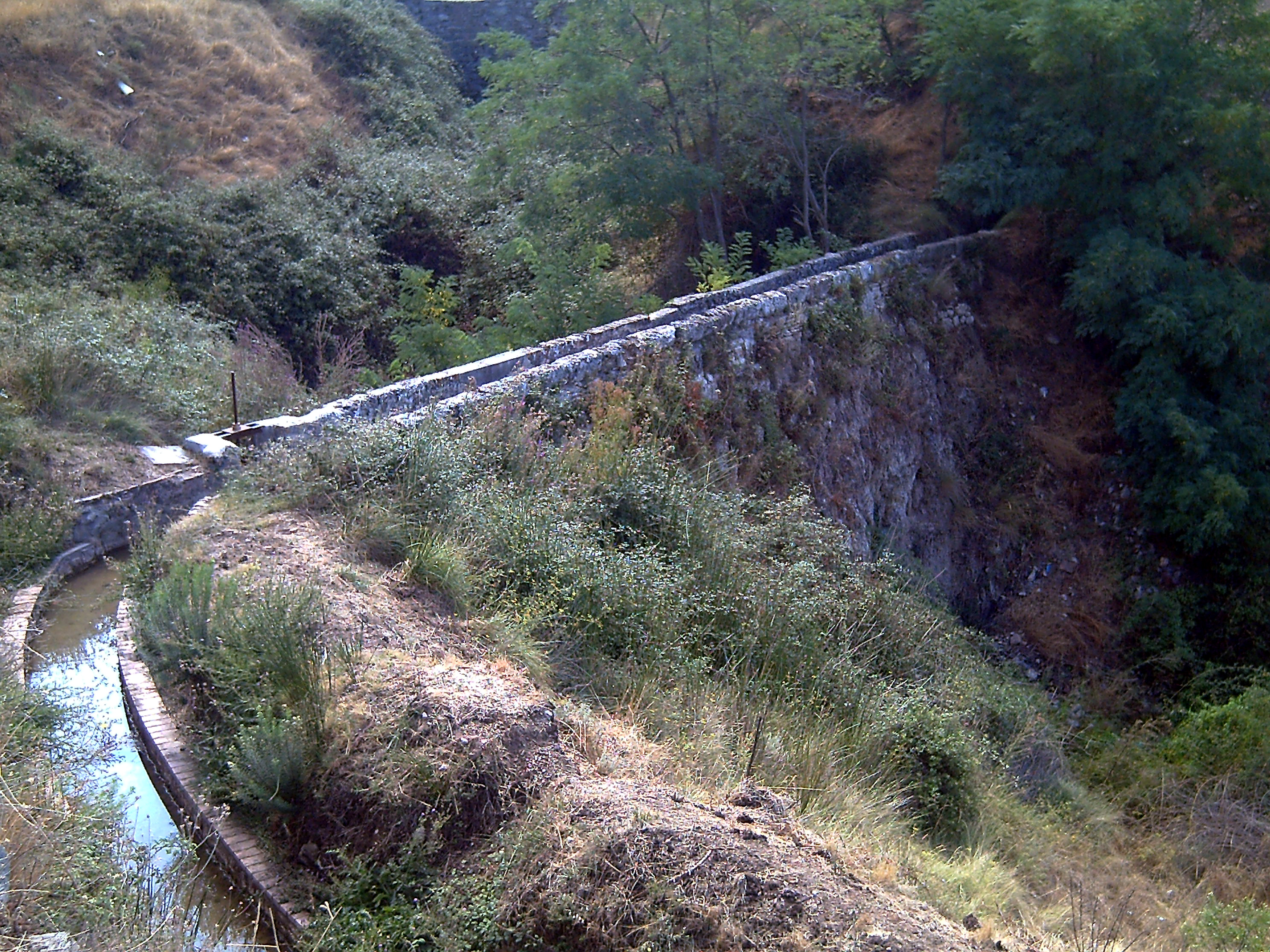 Acequia Aynadamar between Alfacar and Viznar